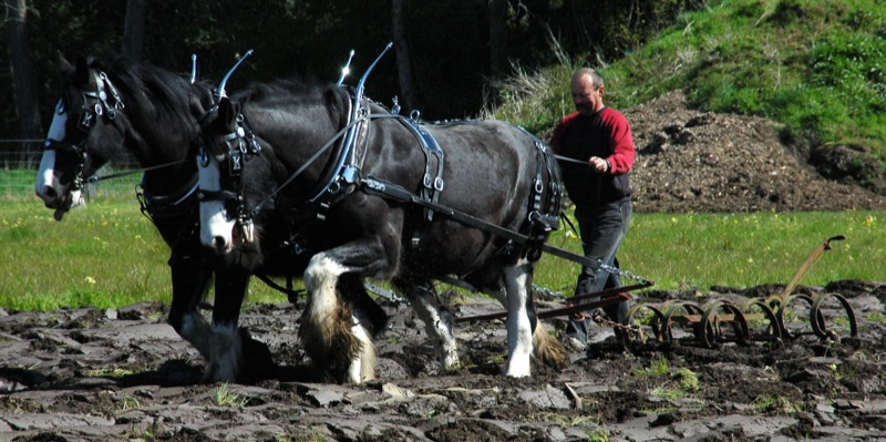 Clydesdales. Plowing match – Heritage Acres